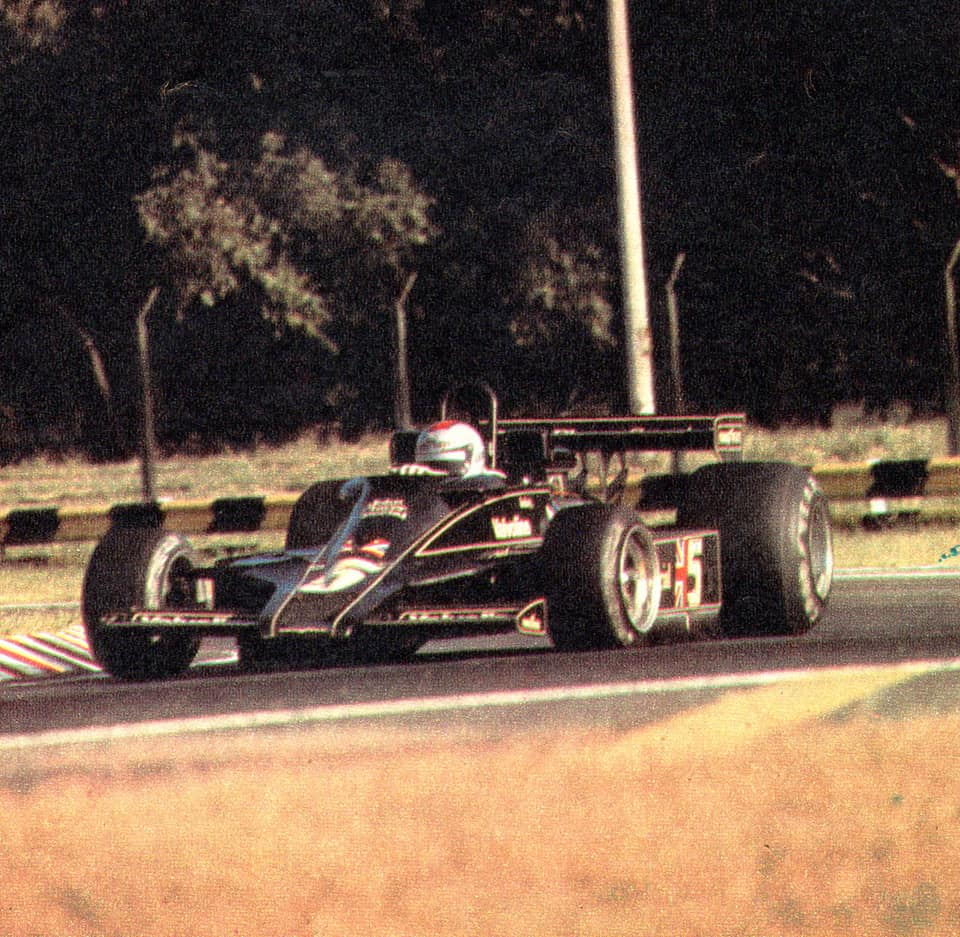 1977 Argentine Grand Prix Andretti.